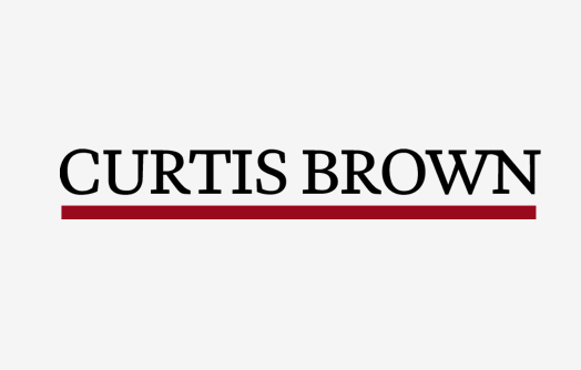 Logo of Curtis Brown Literary and Talent Agency